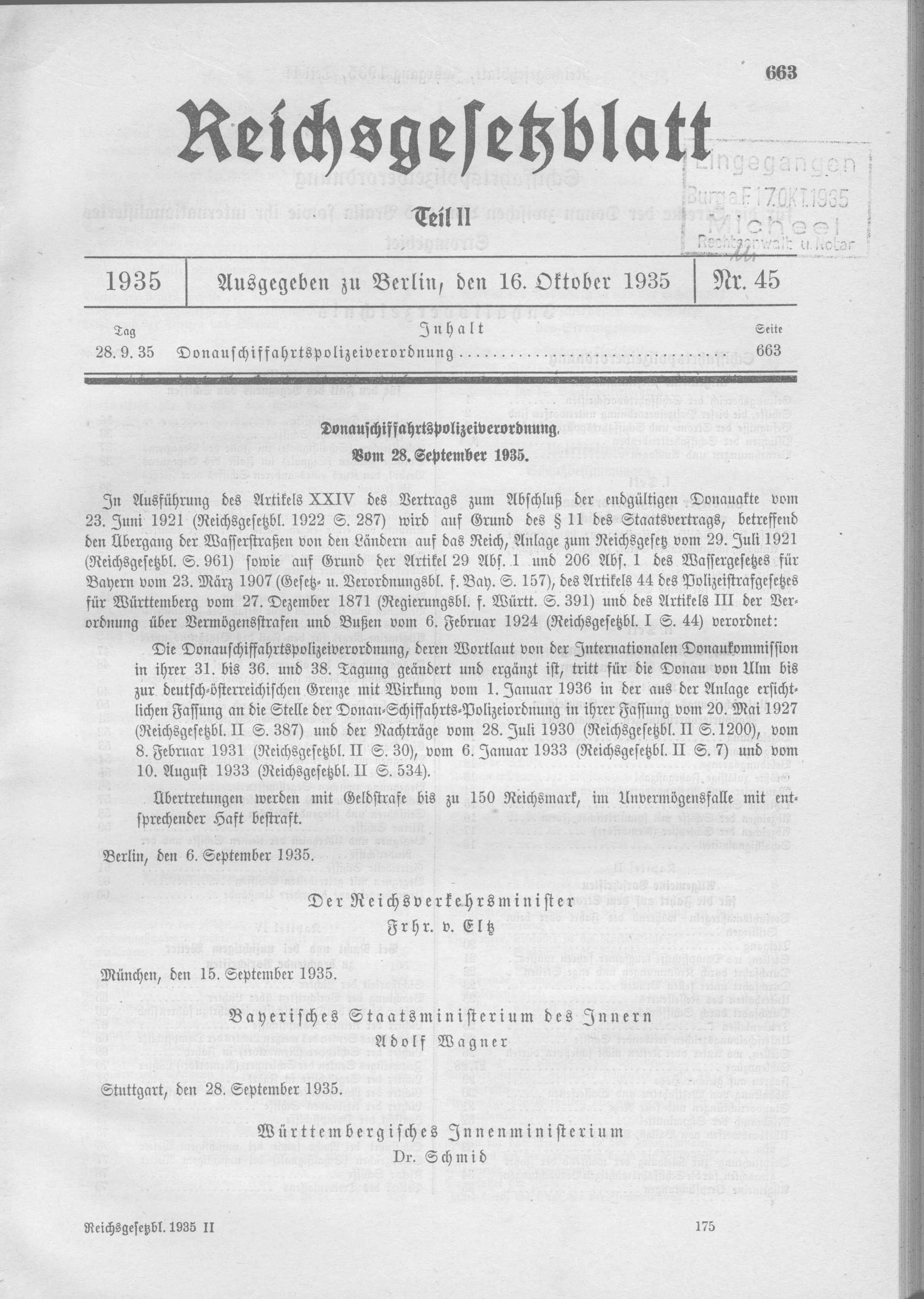 Scan from the Imperial Law Gazette of Germany, 1935, part 2